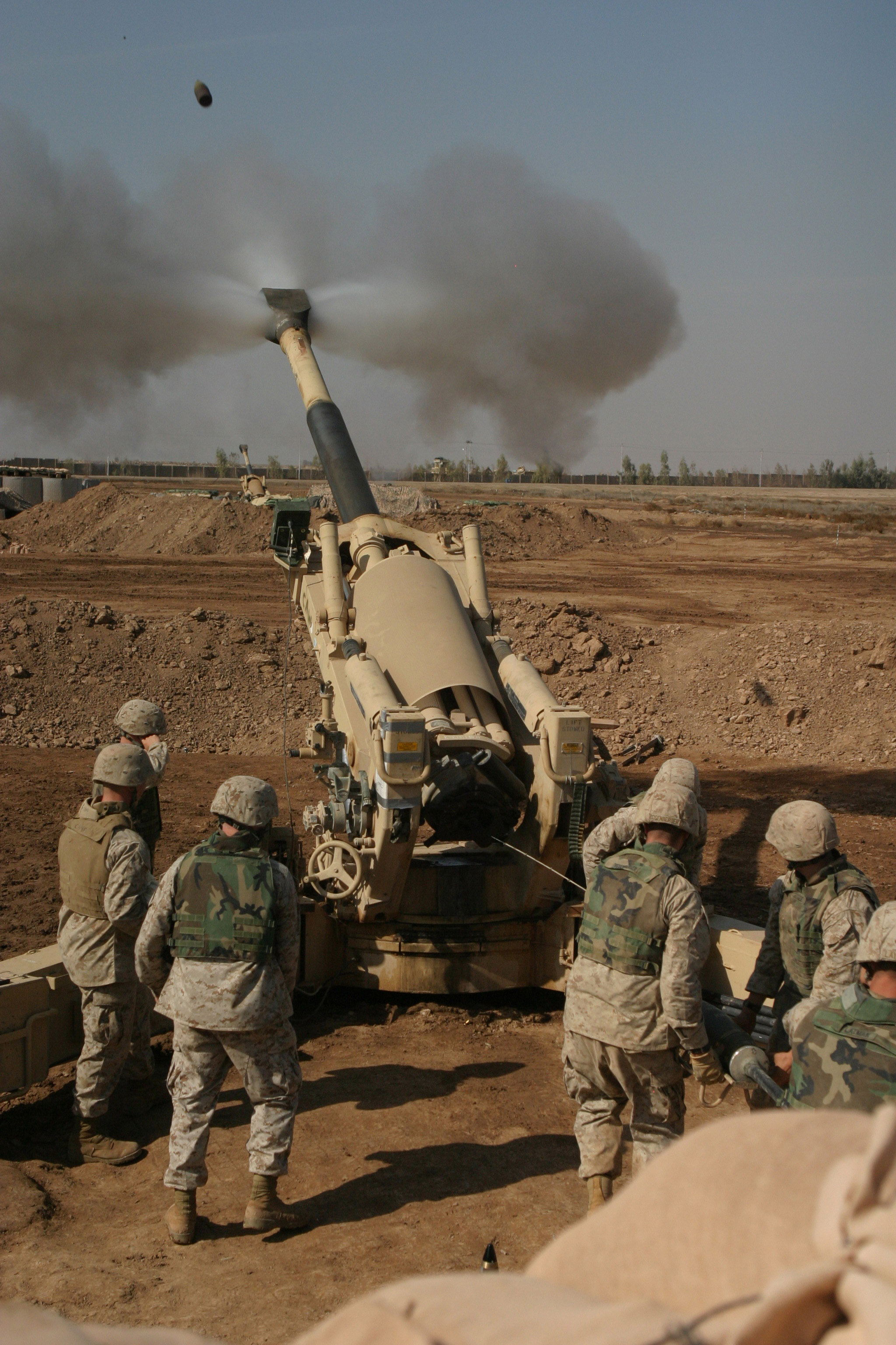 U.S. Marines fire their 155mm M198 Medium Howitzer on an insurgent position from the outskirts of Fallujah, Iraq, during Operation al Fajr (New Dawn) on Nov. 11, 2004. The Marines are assigned to 4th Battalion, 14th Marine Regiment.